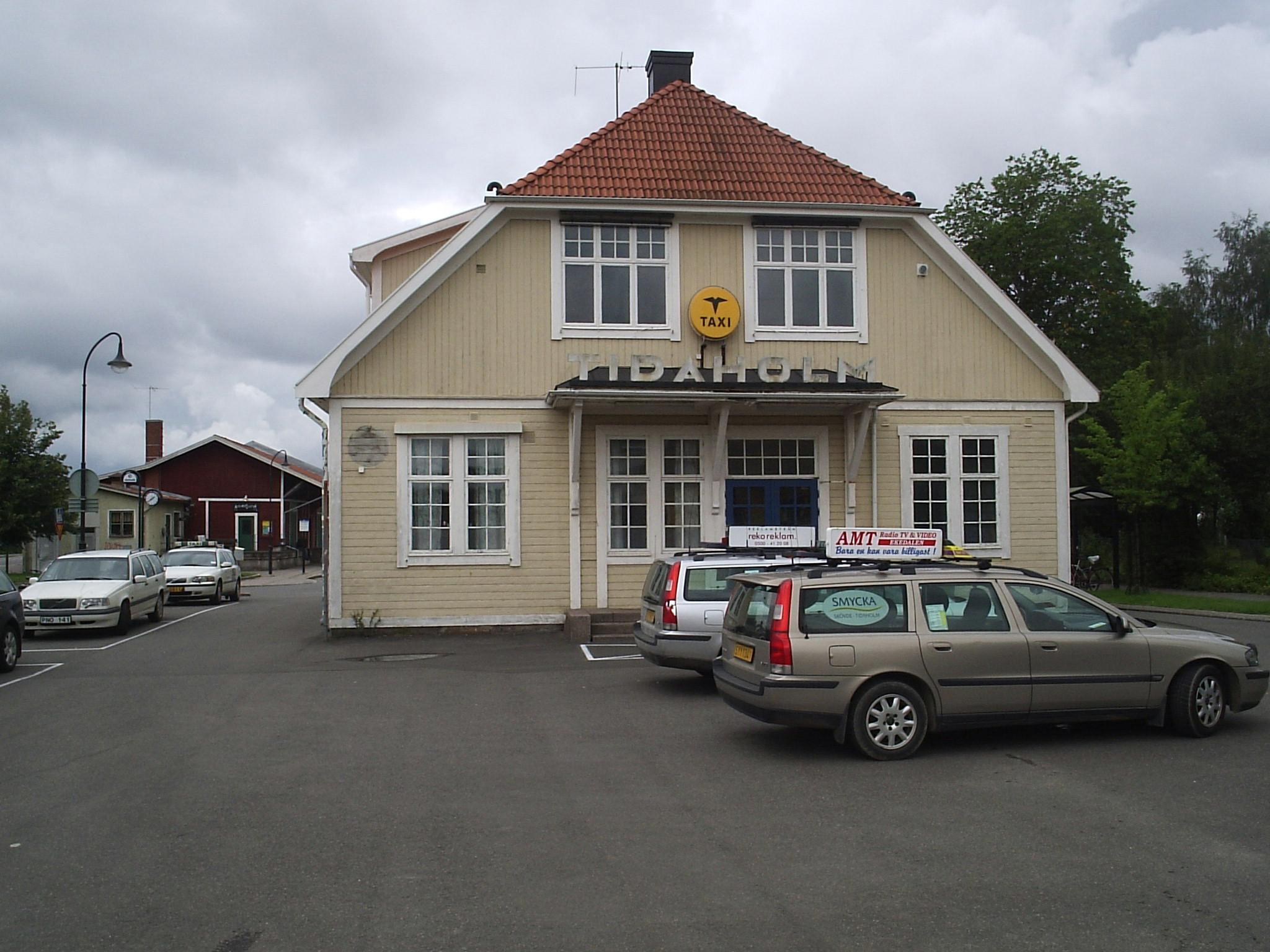 Photo by Harri Blomberg.